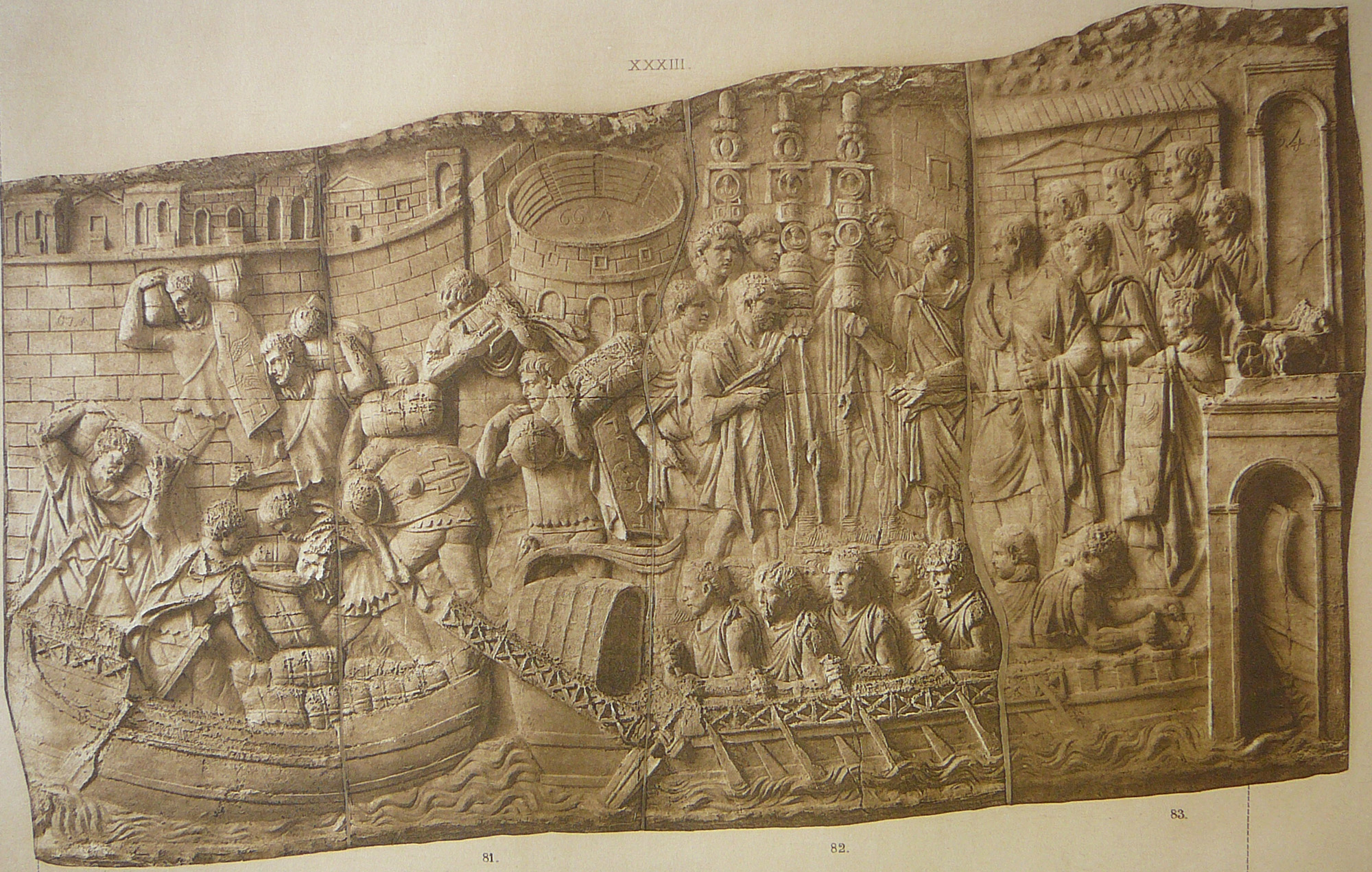 Embarkation at a riverside harbour (scene XXXIII)